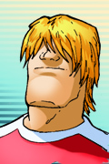 The BLok is the key defender for Supa Strikas FC